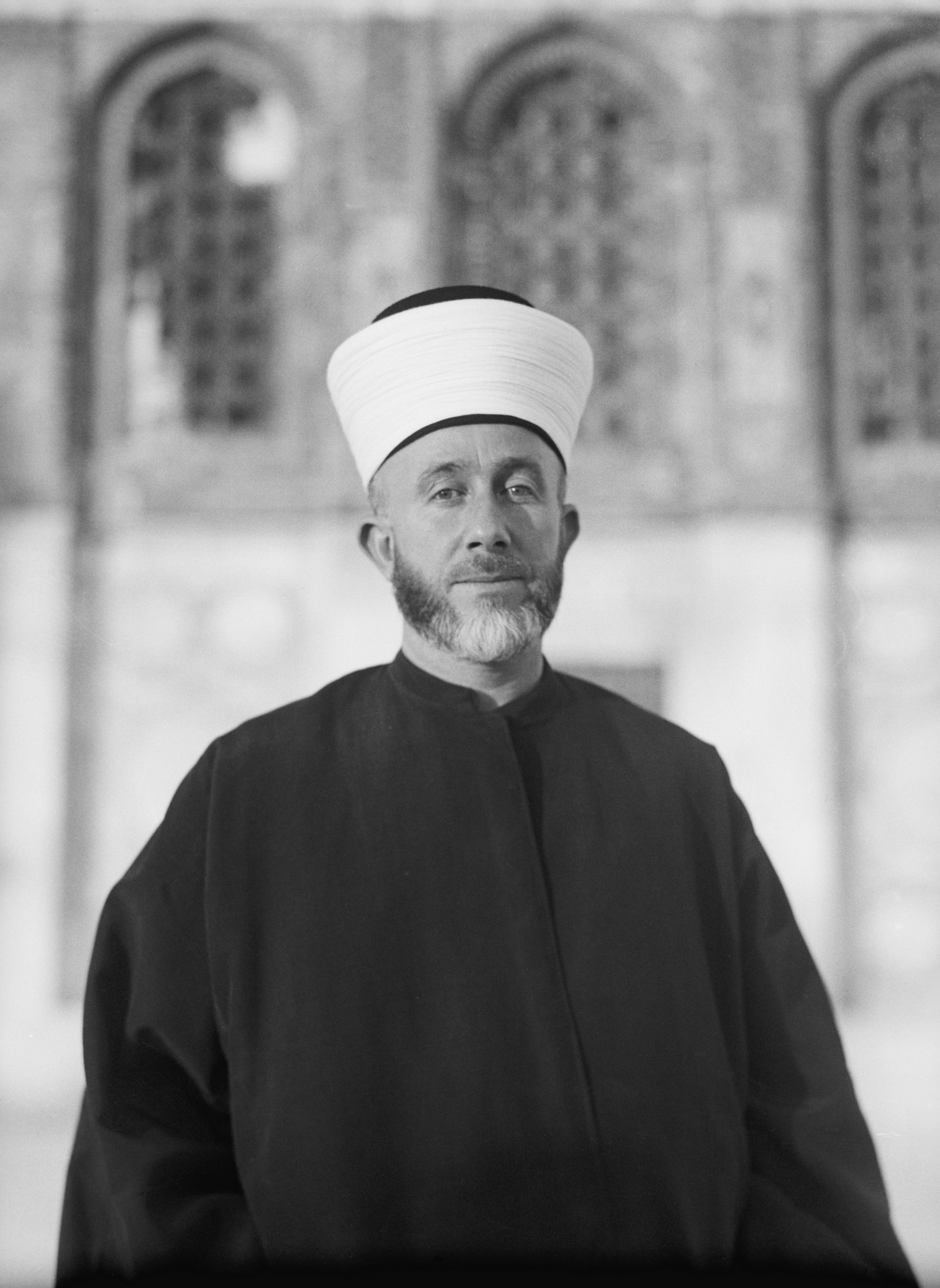 His Eminence the Grand Mufti of Jerusalem. Haj Amin Effendi el-Husseini. (Arab protest delegations, demonstrations and strikes against British policy in Palestine (subsequent to the foregoing disturbances [1929 riots])